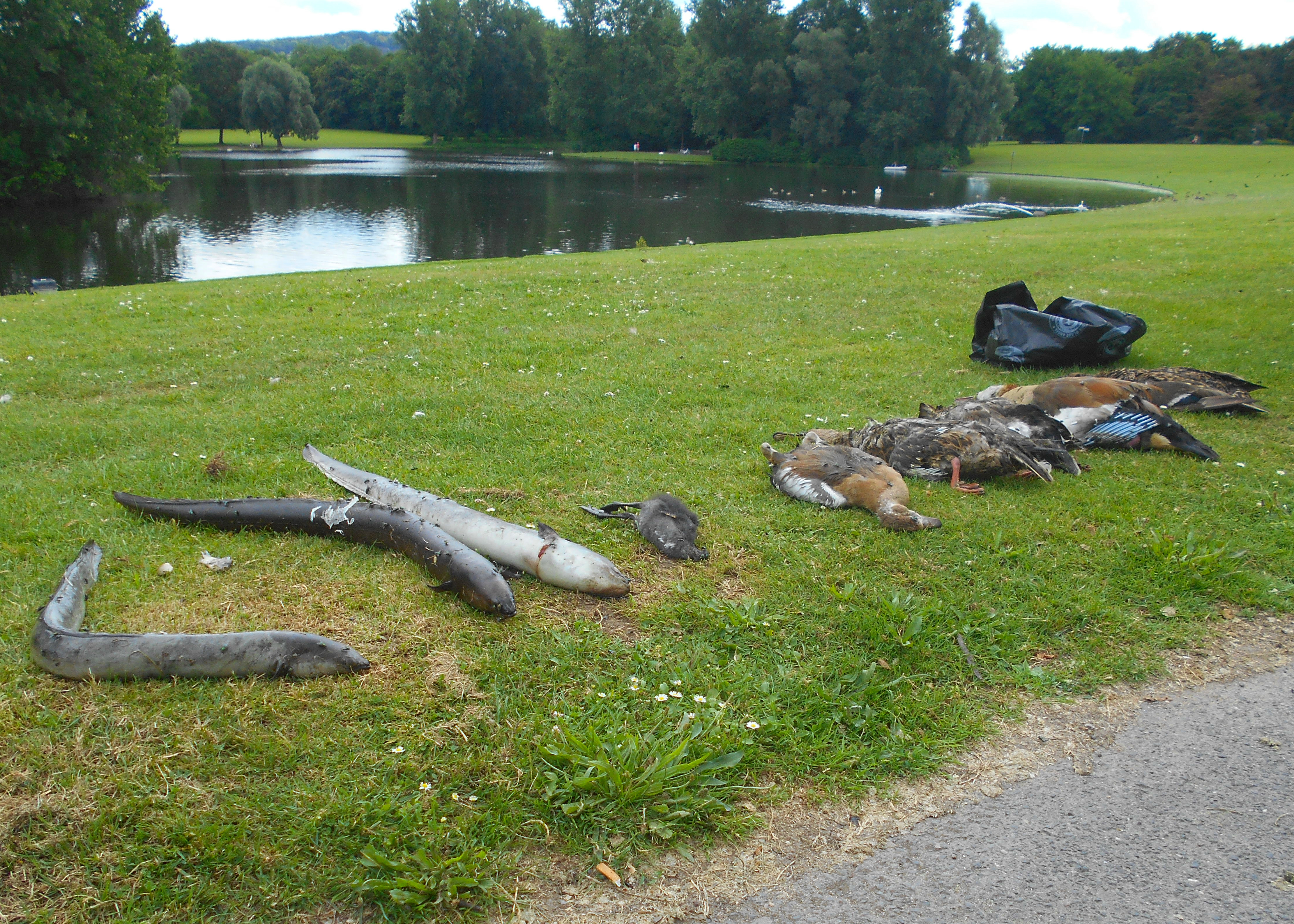 Dead fish and birds in Bonn. In summer 2018, around 400 dead animals were removed from the Rheinauesee. Favored by the low water depth (0.5 to three meters), the lack of running water, an increased production of organic deposits and other factors, there is a significant reduction in the oxygen content in longer, sunny periods, which leads to the death of a part of the fish. The formation of sapropel at the bottom of the lake can be associated with the formation of toxins such as botulinum toxin, which can cause the death of waterfowl. Also the feeding of the animals by park visitors and the thereby increased propagation contaminated the lake by the feces of the large bird population. All factors together, the lake may reach the tipping point.